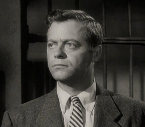 Max Showalter (aka Casey Adams) in Indestructible Man - cropped screenshot